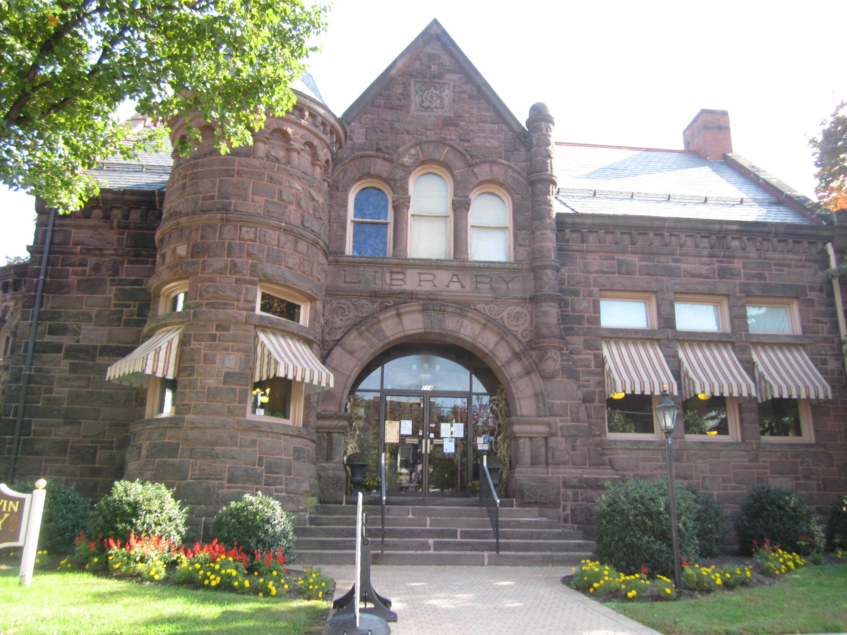 The Amelia S. Givin Free Library in Mount Holly Springs, Pennsylvania